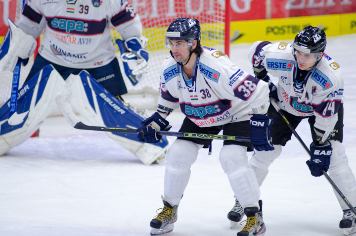 30.10.2013, Stadthalle Villach, AUT, EBEL, 31. Runde, EC VSV vs. SAPA Fehervar AV19, im Bild Frank Banham , (SAPA Fehervar AV19, #38),Tamas Pozsgai, (SAPA Fehervar AV19, #14),// frostworx Pictures © 2013, PhotoCredit: frostworx / Alex Micheu